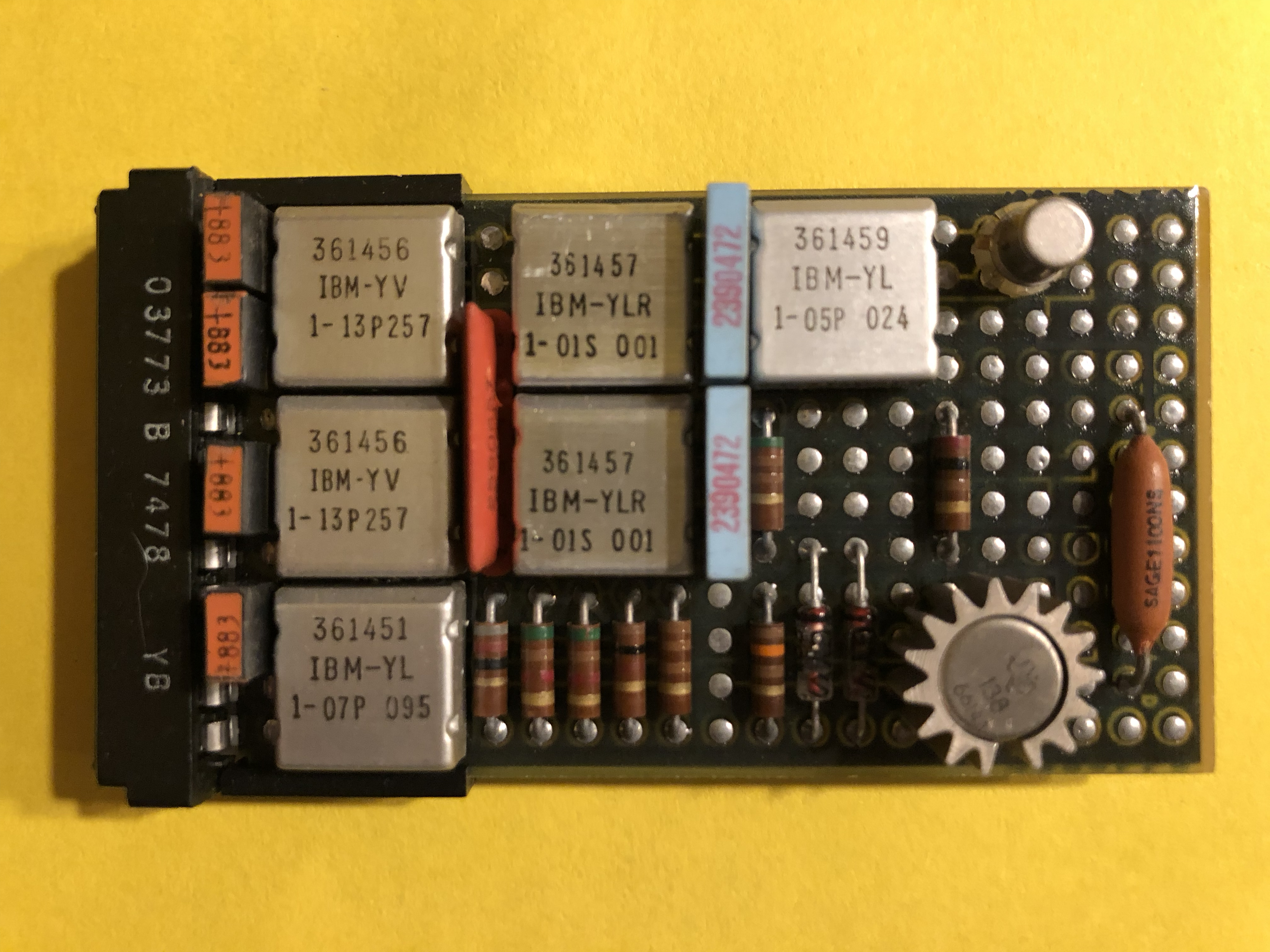 IBM Solid Logic Technology single width card, 77mm x 42mm, type 03773, From an IBM 1130.